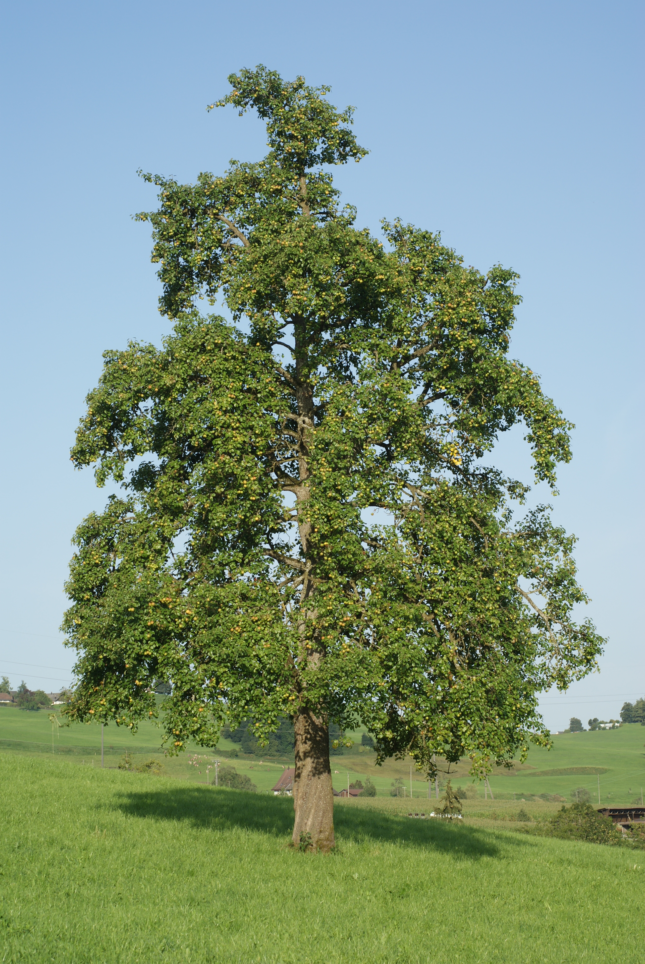 Tree of "Gelbmöstler", a pear variety which can be found mainly in the Bodensee region (D, AU, CH) and northern Switzerland.